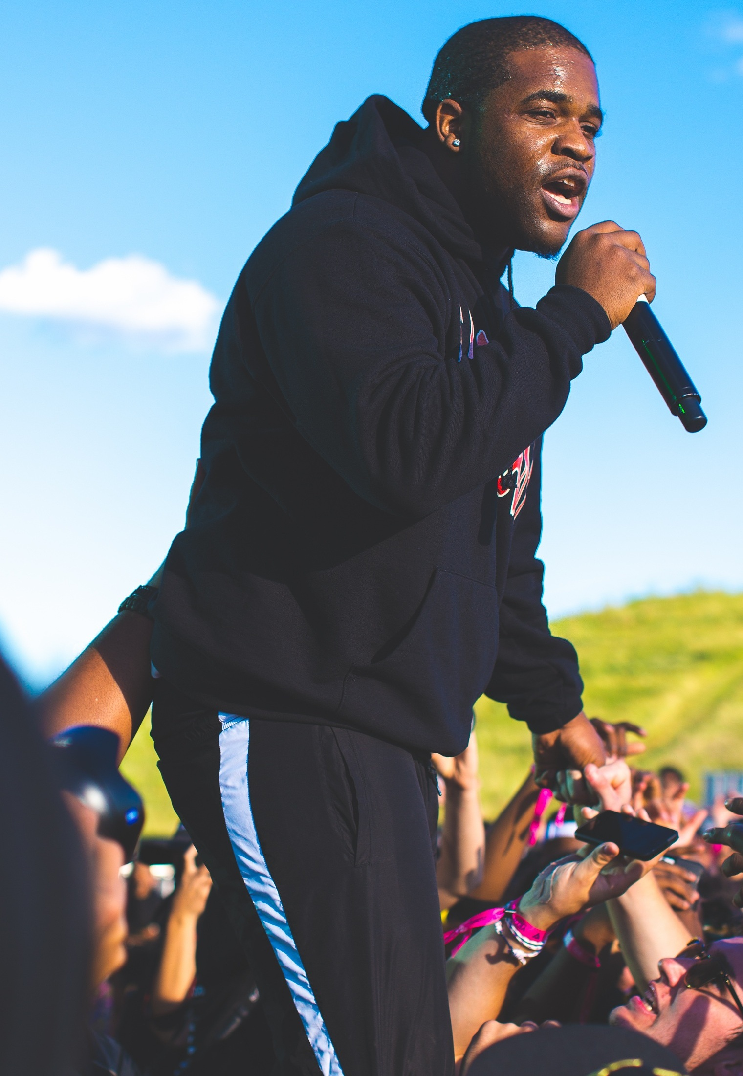 ASAP Ferg performing at the Veld festival in August 2017